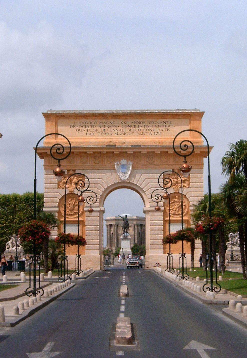 Arc de Triomphe of Louis XIV in Montpellier